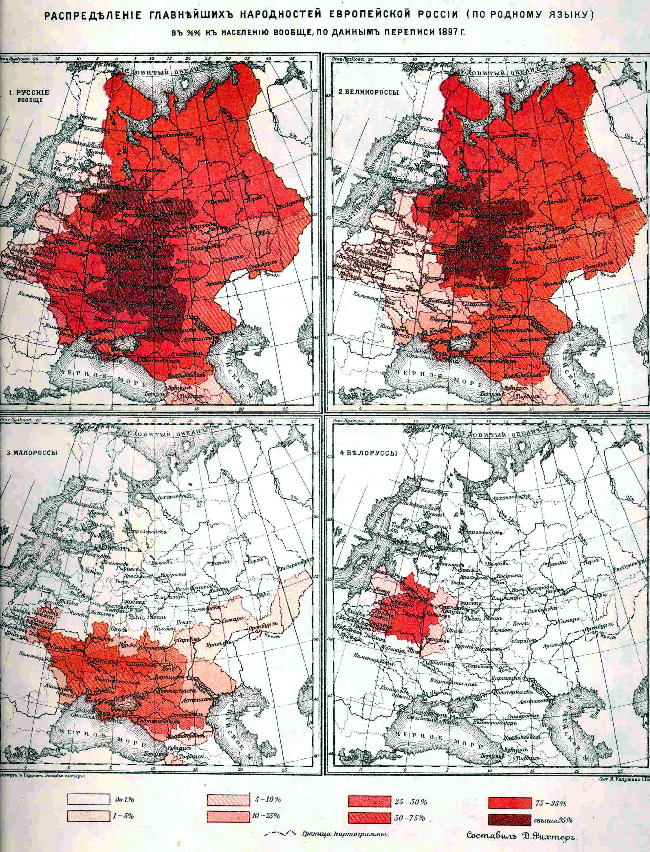 distribution of Russians, Ukrainians and Belorussians in Russian Empire according to the 1897 census; from Brockhaus and Efron Encyclopedic Dictionary